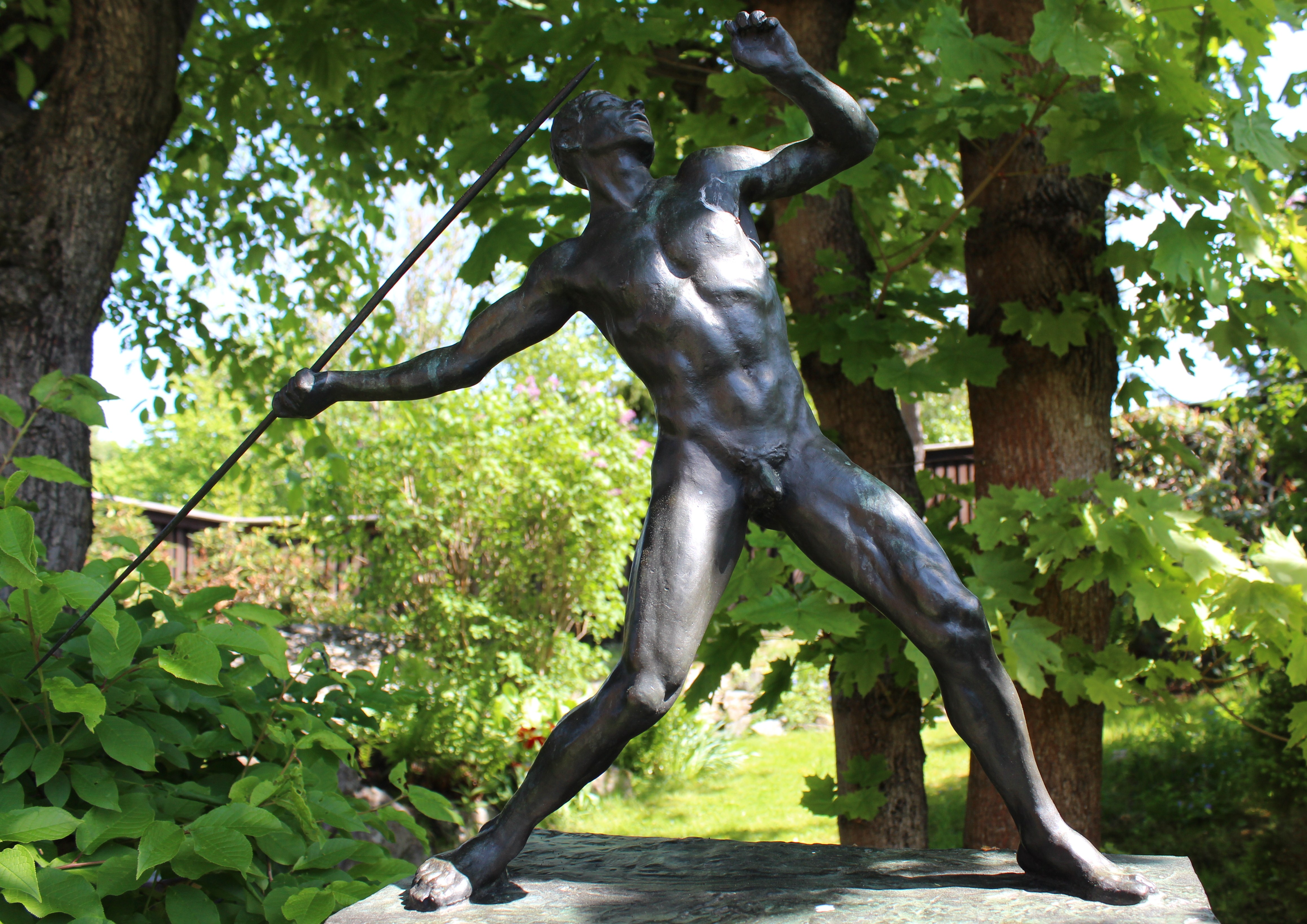 Sculpture by Carl Eldh at the Carl Eldhs Ateljémuseum, Stockholm, Sweden